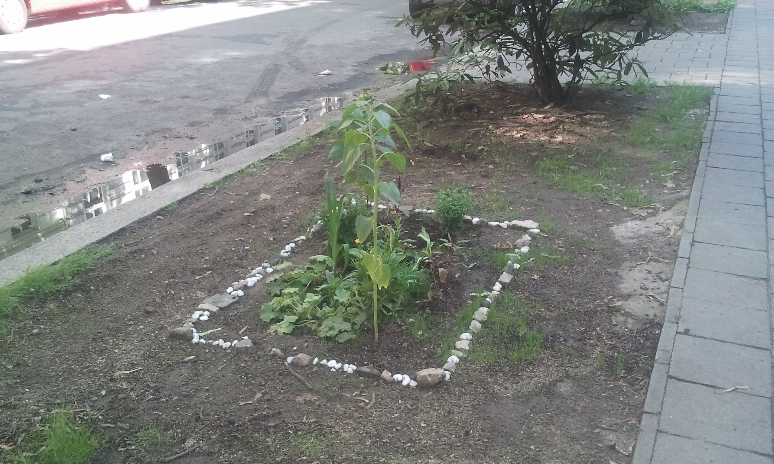 Guerilla Gardening in Berlin, bed with pebble stone curb